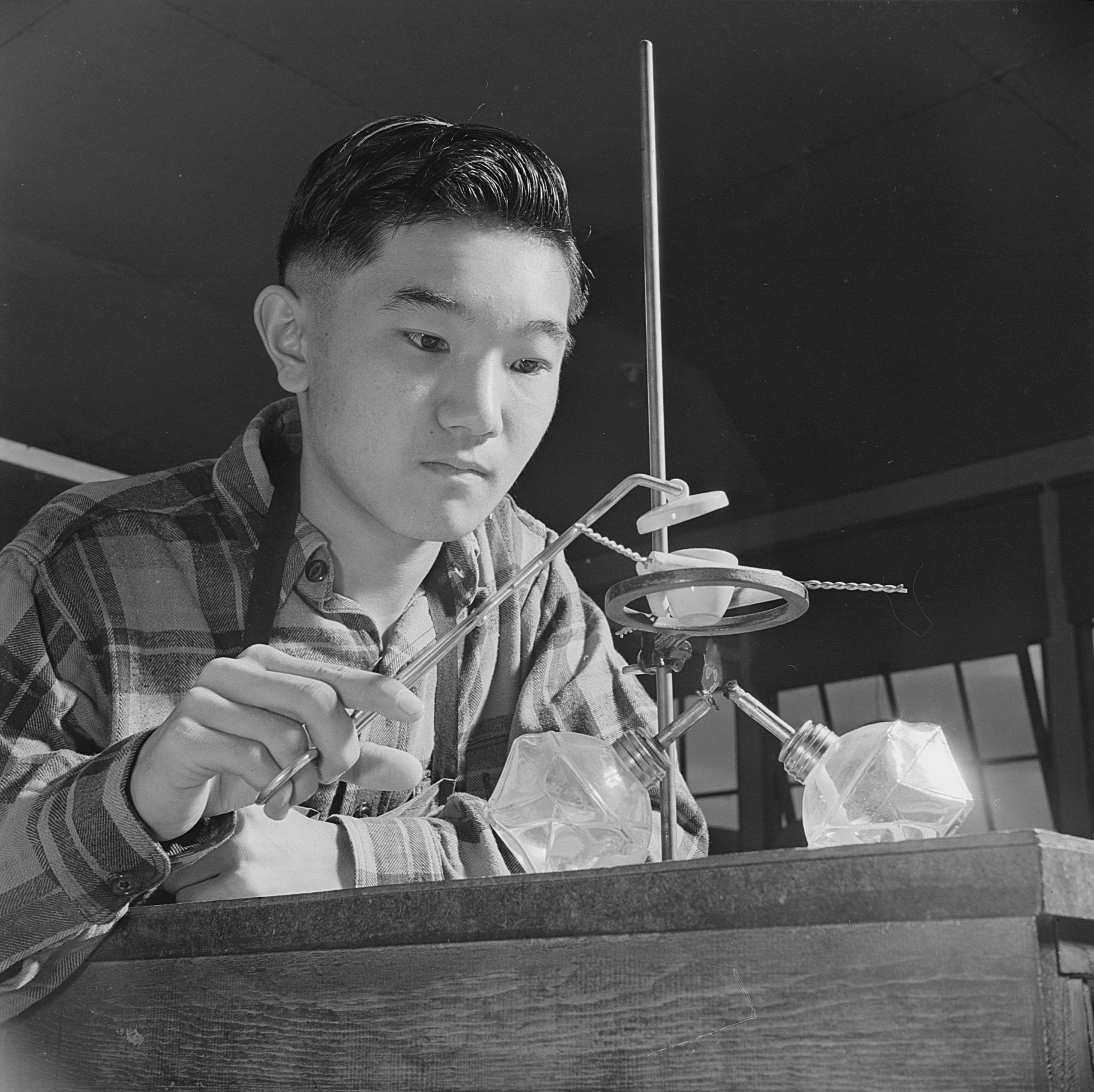 Harry Ishigaki conducts an experiment in Chemistry in the laboratory of the Heart Mountain High School. -- Photographer: Iwasaki, Hikaru -- Heart Mountain, Wyoming.